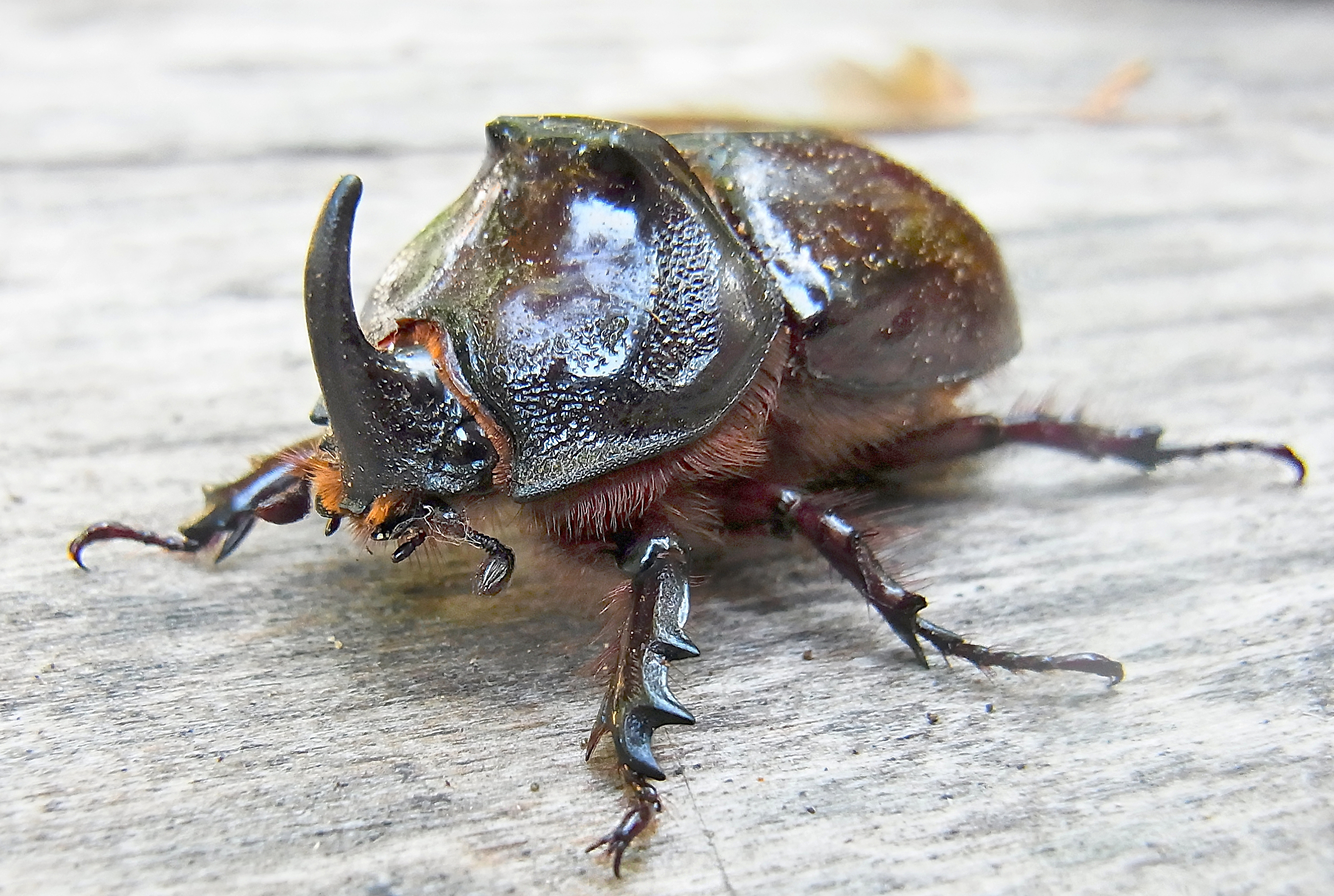 Oryctes nasicornis from Hungary, at 2012-06-20